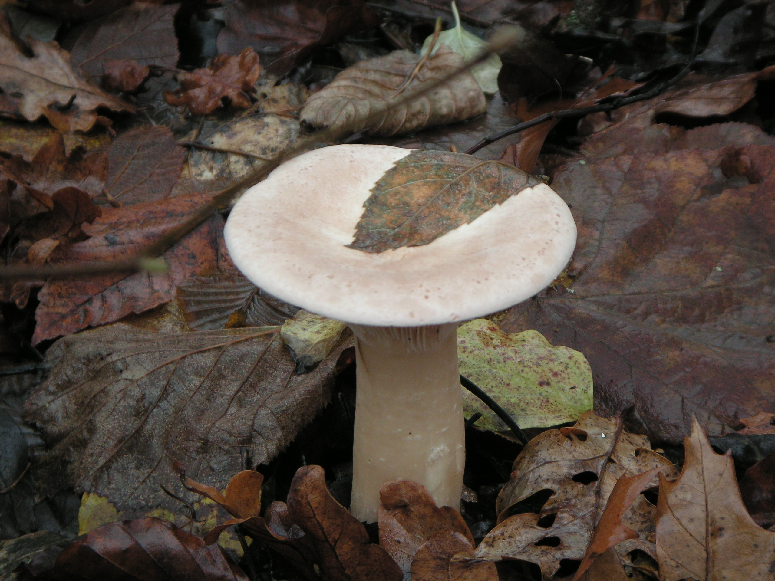 Mönchskopf adolesent Clitocybe geotropa